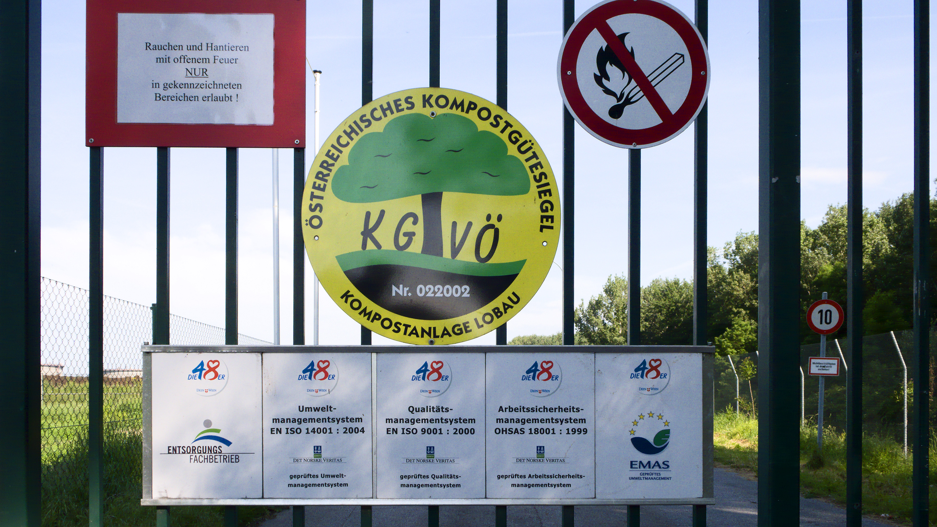 Kompostwerk Lobau in Vienna Donaustadt